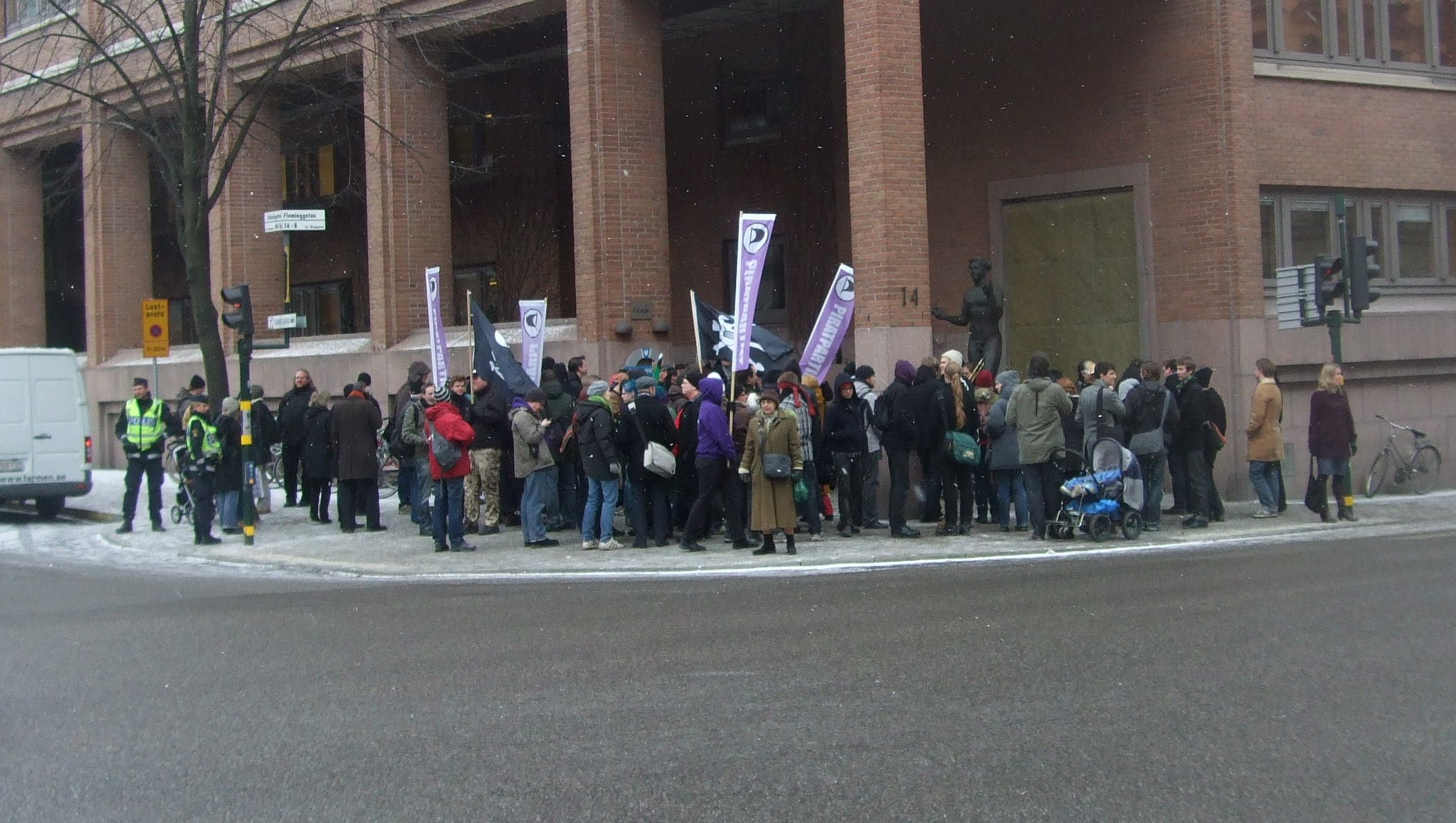 Demonstrations (outside Stockholm's district court's temporary offices at Tekniska nämndhuset) protesting the trial against The Pirate Bay during the first day of the trial.